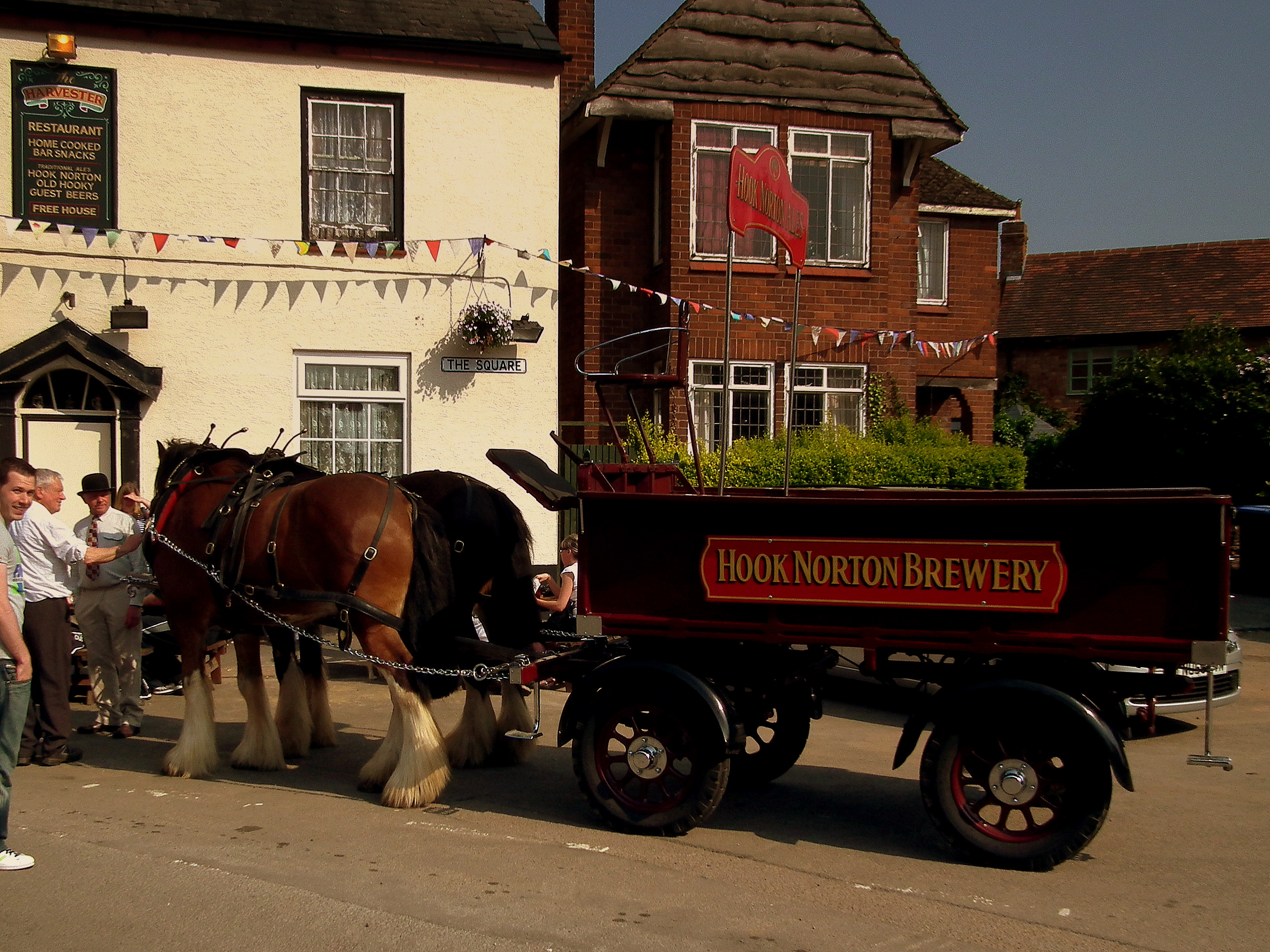 HOOK NORTON BREWERY DRAY AT THE HARVESTER LONG ITCHINGTON BEER FESTIVAL APRIL 2011